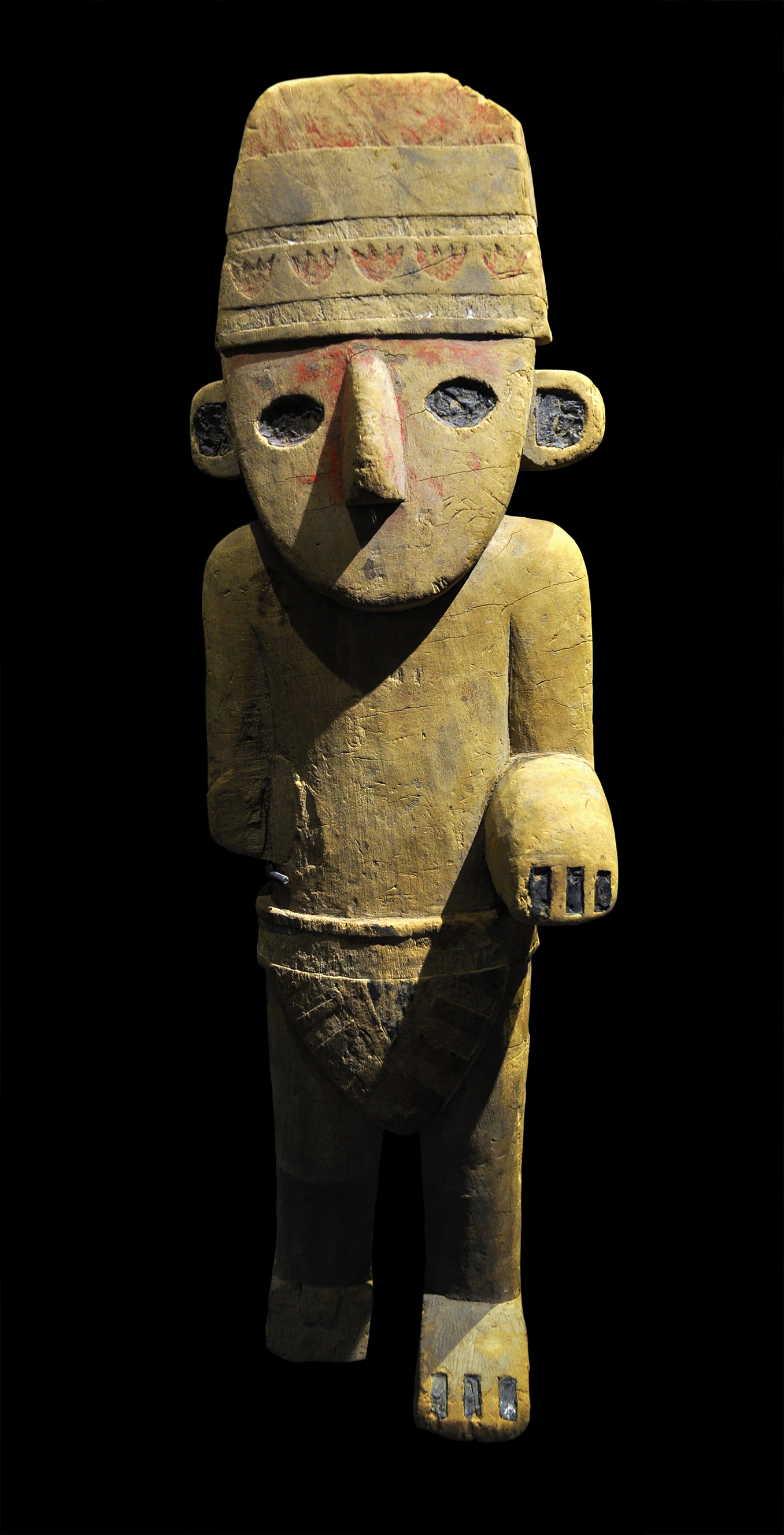 Offerings bearer, wooden sculpture, Chimu culture, North Coast of Peru, 1100 - 1470. Hergé was inspired by this artwork for the figurine in The Broken Ear, the sixth of the Adventures of Tintin. MRAH, Jubilee Park, Brussels.